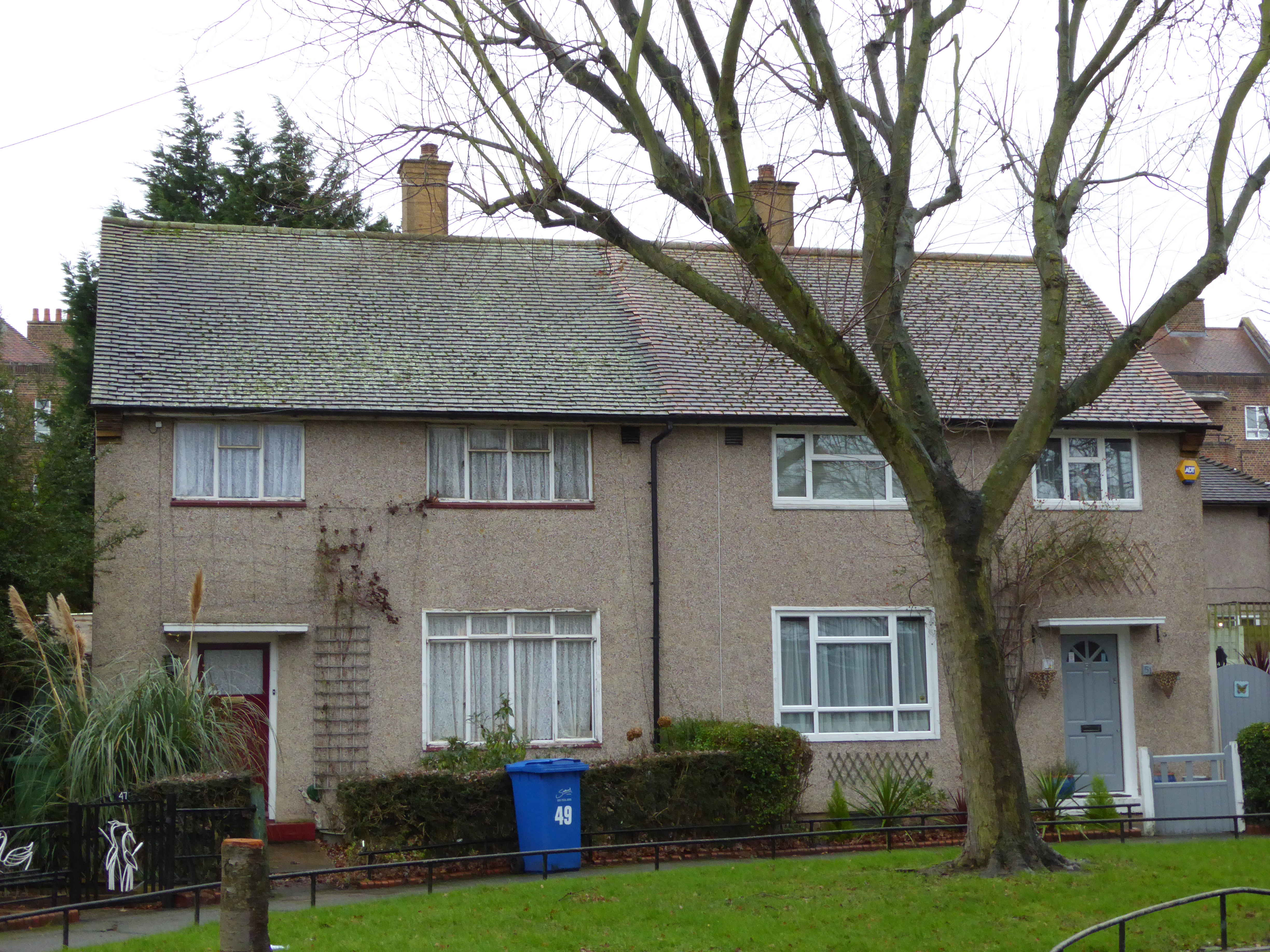 Unit of two semidetached houses built 1950s for letting the in the London Borough of Southawk. Cost the council approx £(2012) 55,000 . Has 3 bedrooms and front and back garden. This is the most common type of house in England over million built by various councils with minor variations,.